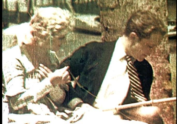 This is one of the few surviving film fragments from The Gulf Between (1917), the first Technicolor movie and the only one made to be publicly shown by the additive two-color method. The frame seen comes from an early experimental subtractive two-color printing test and only approximates the appearance of the image as it was originally projected. Each color frame began as a pair of frames of black-and-white film simultaneously photographed through red and blue-green filters in a special Technicolor movie camera. The frame pairs were on a single strip of film that ran through the camera at twice the normal rate. An ordinary black-and-white print was projected, also at twice the normal rate, using a special optical system that simultaneously projected each pair of frames through the appropriate color filters and superimposed them on the projection screen. In practice, maintaining acceptably good registration of the two images on the screen required constant attention by an expert, making the system commercially impractical. Subsequent two-color Technicolor films were issued as subtractive color prints with superimposed red and green dye images in each frame, eliminating the need for special projection equipment and unusual skills.